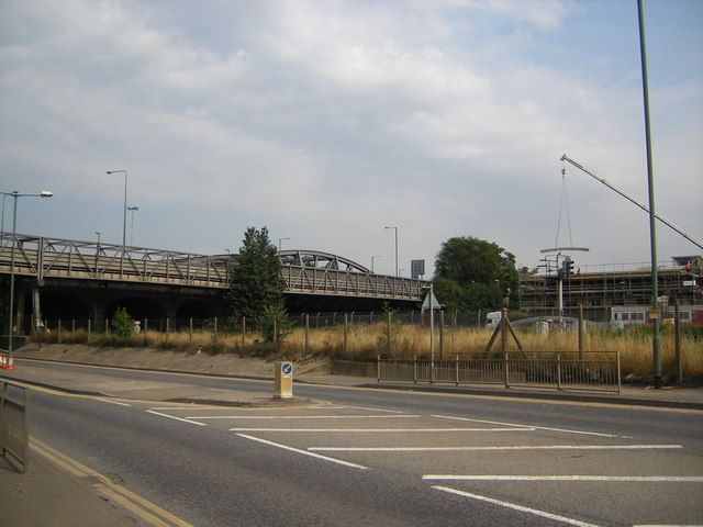 Great Central Way, Neasden. The bridge carries the North Circular Road over this road and Metropolitan & Jubilee tube lines.